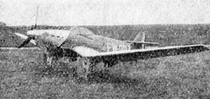 Loire Nieuport LN-40 photo from L'Aerophile August 1943